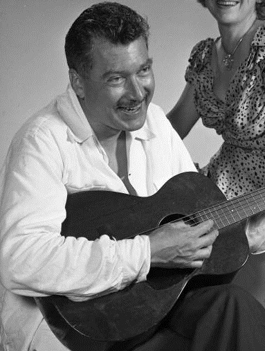 Local call number: JJS1059 Title: Novelist MacKinlay Kantor playing the guitar: Sarasota, Florida Date: July 29, 1950 General note: Kantor won the Pulitzer Prize for Fiction in 1956 for his novel Andersonville. Physical descrip: 1 photonegative - b&w - 5 x 4 in. Series Title: Joseph Janney Steinmetz Collection Repository: State Library and Archives of Florida, 500 S. Bronough St., Tallahassee, FL 32399-0250 USA. Contact: 850.245.6700. Persistent URL